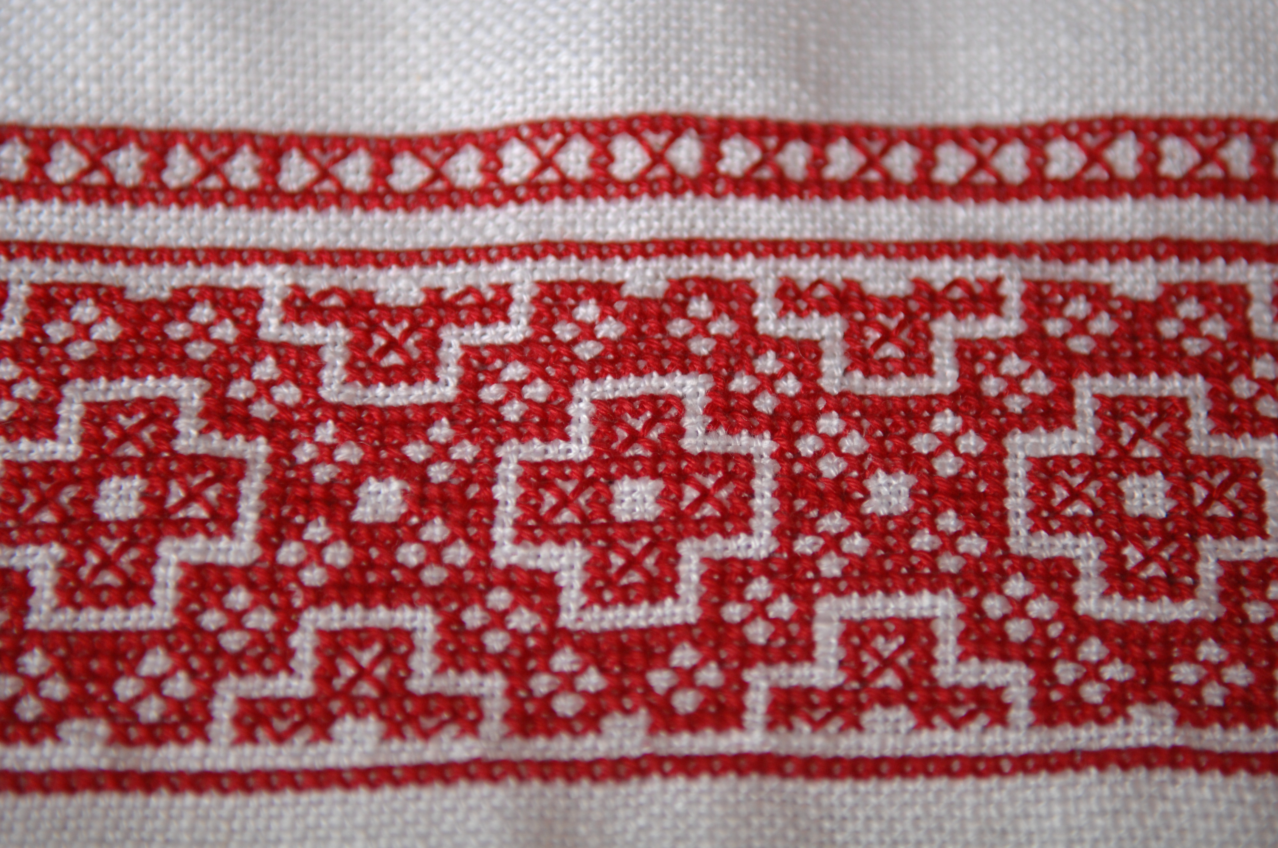 Cross stitch